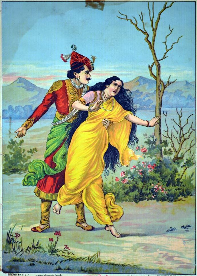 aydrath Draupadi Haran Early Lithograph by Ravi Varma Press 14 x 10 inches Code No: 10530 Price on Request 0 View to Scale Overview Specifications Contact Us Early Lithograph by Ravi Varma Press Jaydrath Draupadi Haran 14 x 10 inches | 35.5 x 25.4 cms